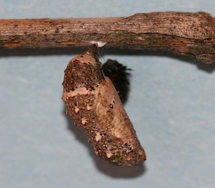 Common Buckeye chrysalis, junonia coenia